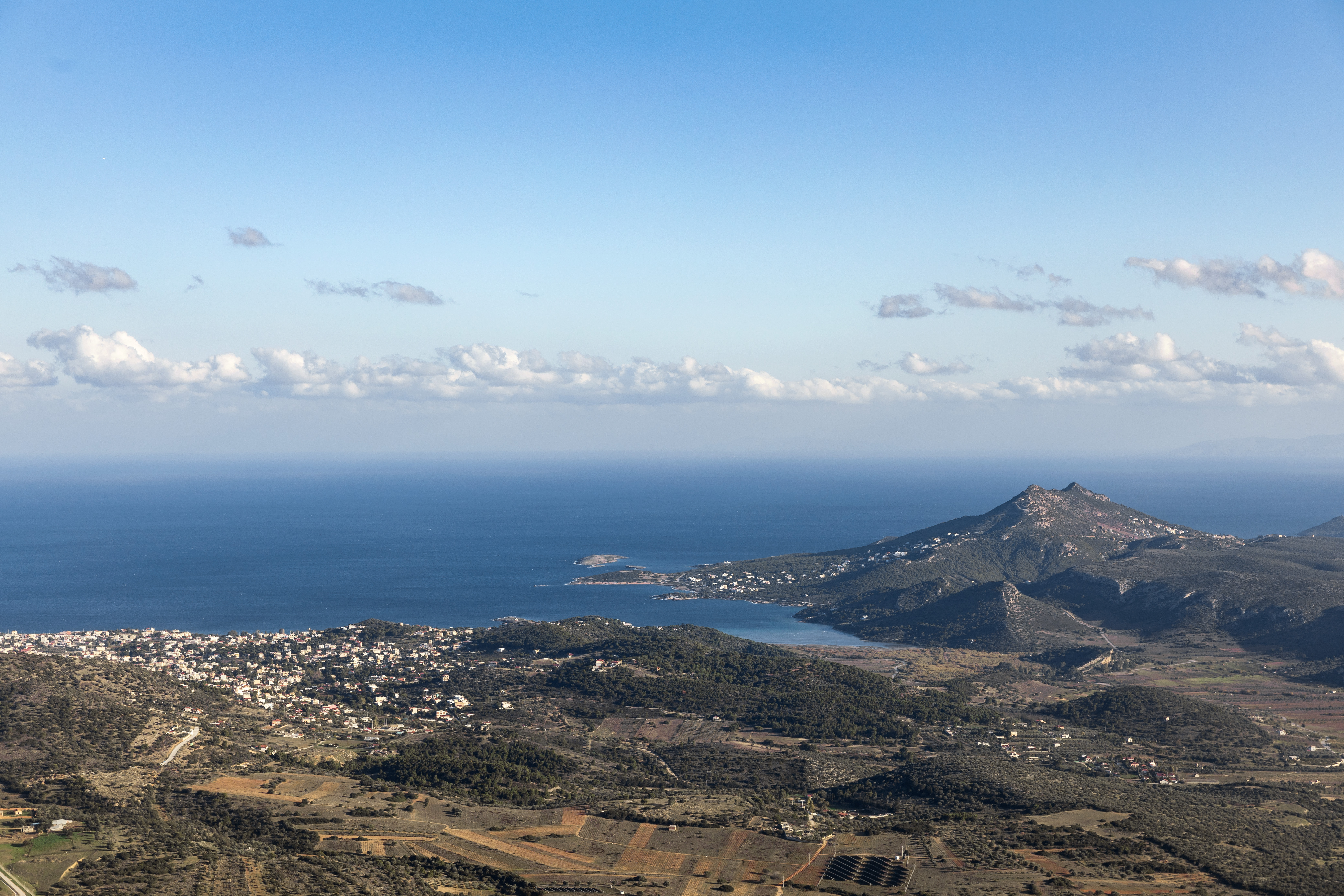 View of Spata-Artemida/Markopoulo Mesogaias, East Attica, Greece.